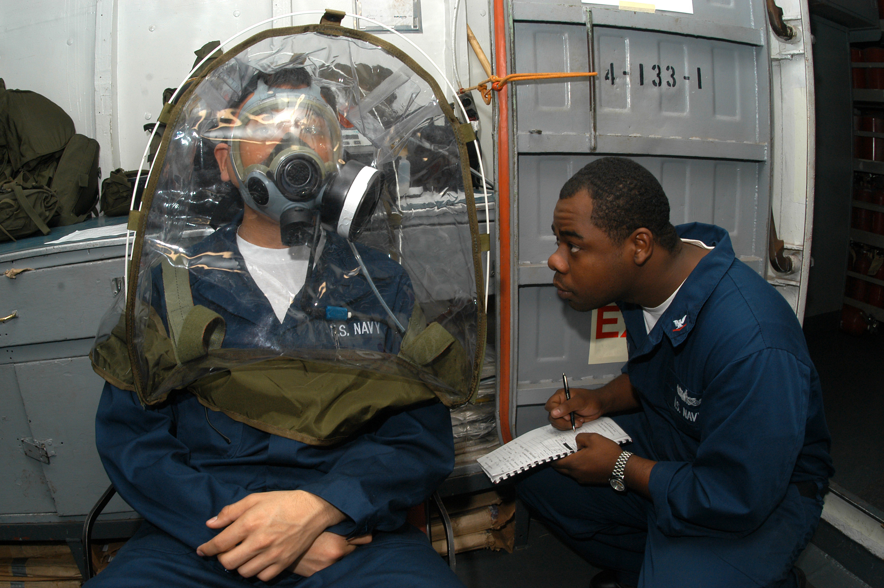 Philippine Sea (Jan. 28, 2004) - Damage Controlman 3rd Class James Allen from Oakland, Calif., conducts a MCU/2P Gas Mask fit test using a TDA 99M respirator functional testing system on Disbursing Clerk Seaman Recruit Aidan Lee from Shiprock, N.M., in the Damage Control shop aboard USS Blue Ridge (LCC 19). The respirator tester is used to check the sailor's gas mask for the correct fit and seal. U.S. Navy photo by Photographer's Mate 1st Class Novia E. Harrington. (RELEASED)